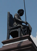 cropped image of the native ruler